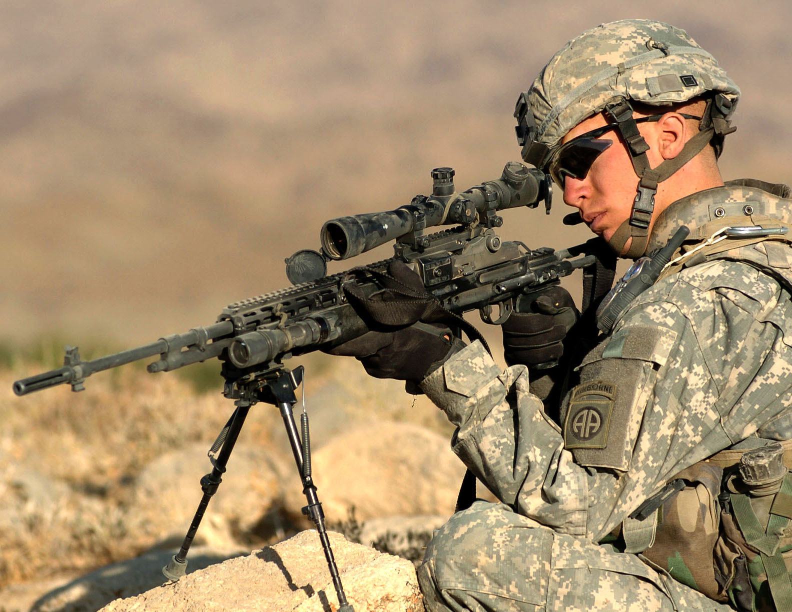 Spc. Ronald Turner, from the 325th Airborne Infantry Regiment, provides security for fellow Soldiers who are searching for insurgents and weapons in Mianashin, Afghanistan.